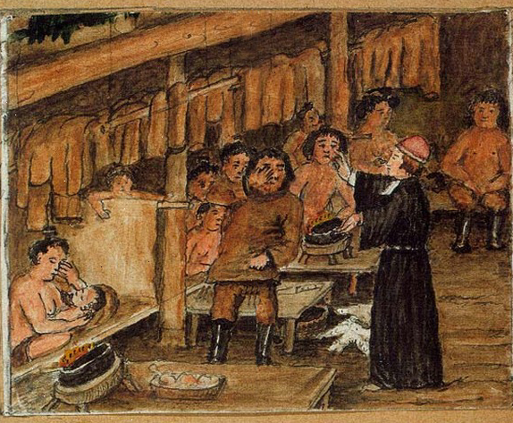 Missionary and Greenlanders